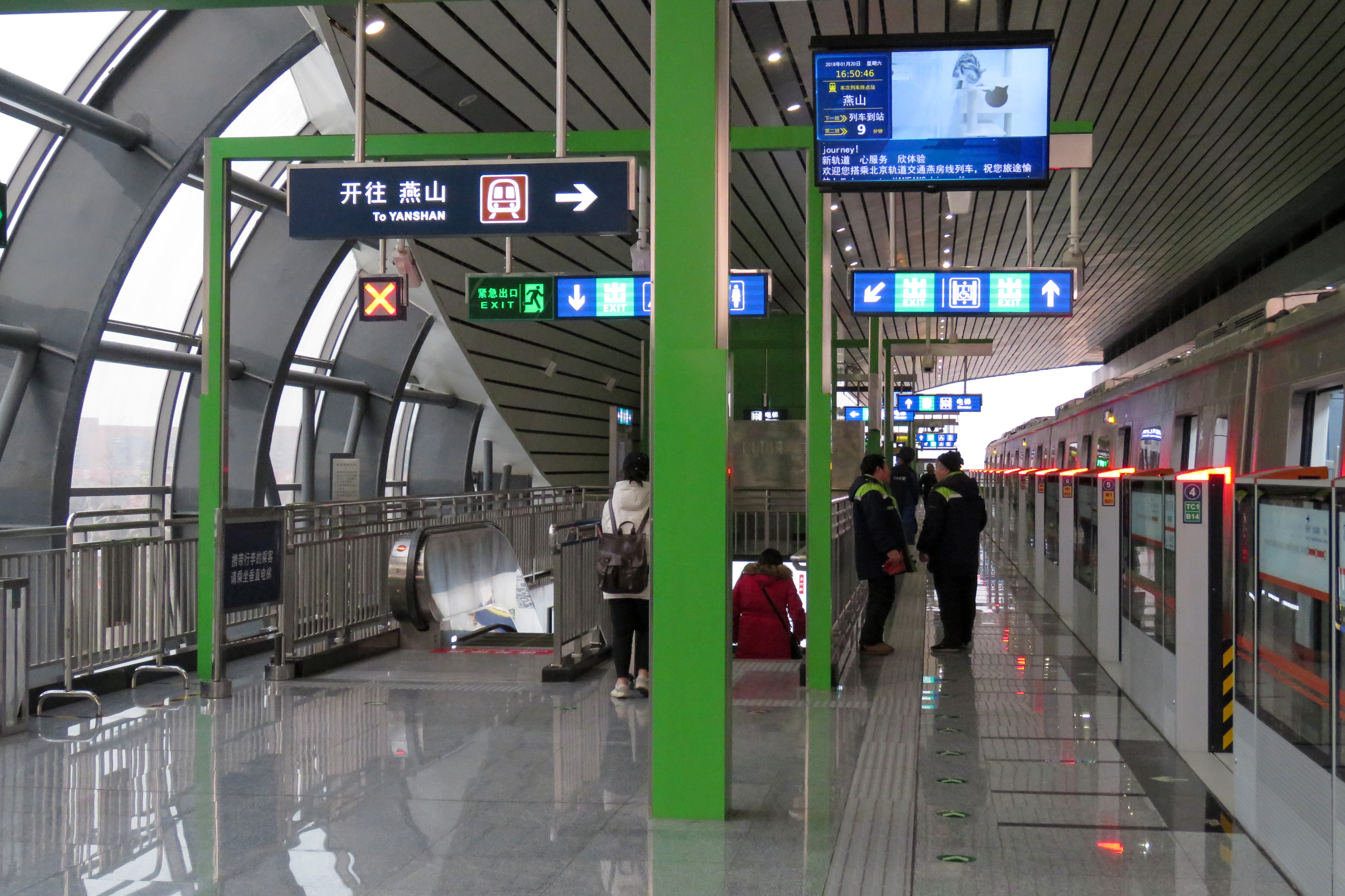 "We're now at Raolefu. Doors will open on the right."